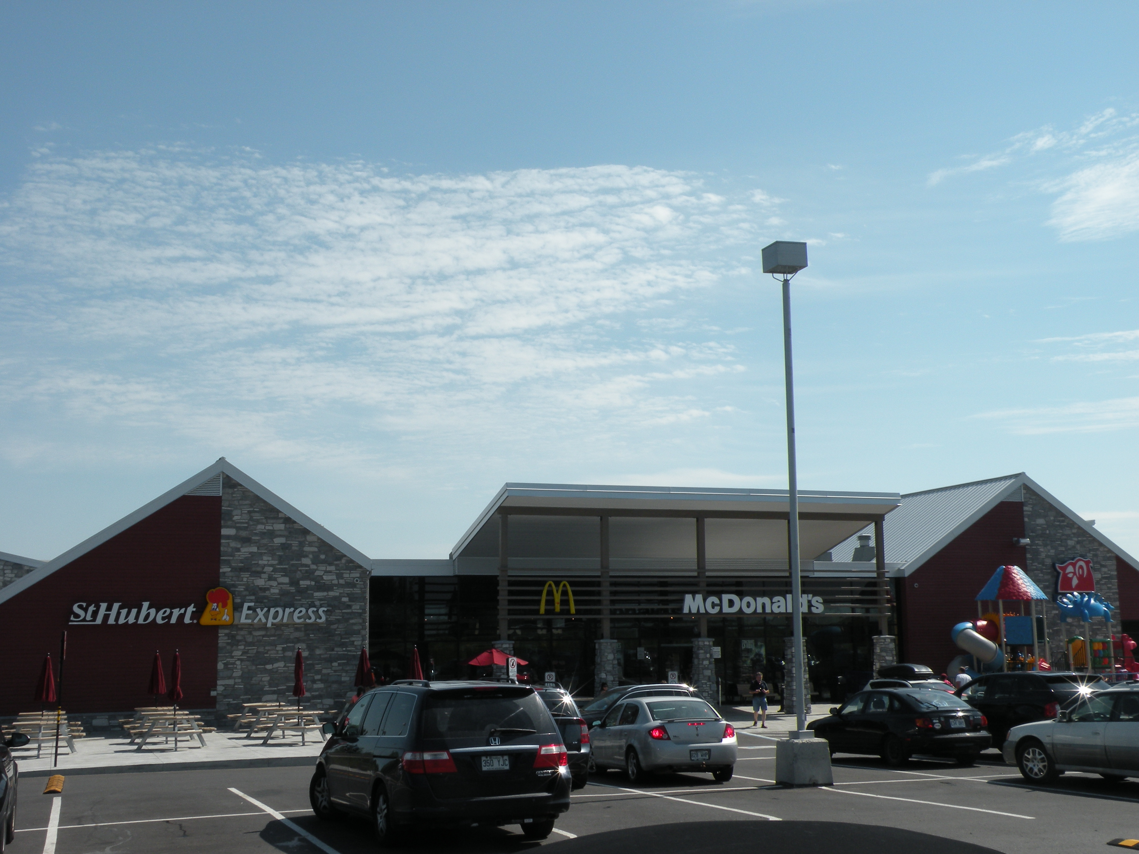 The Madrid 2.0 road stop.